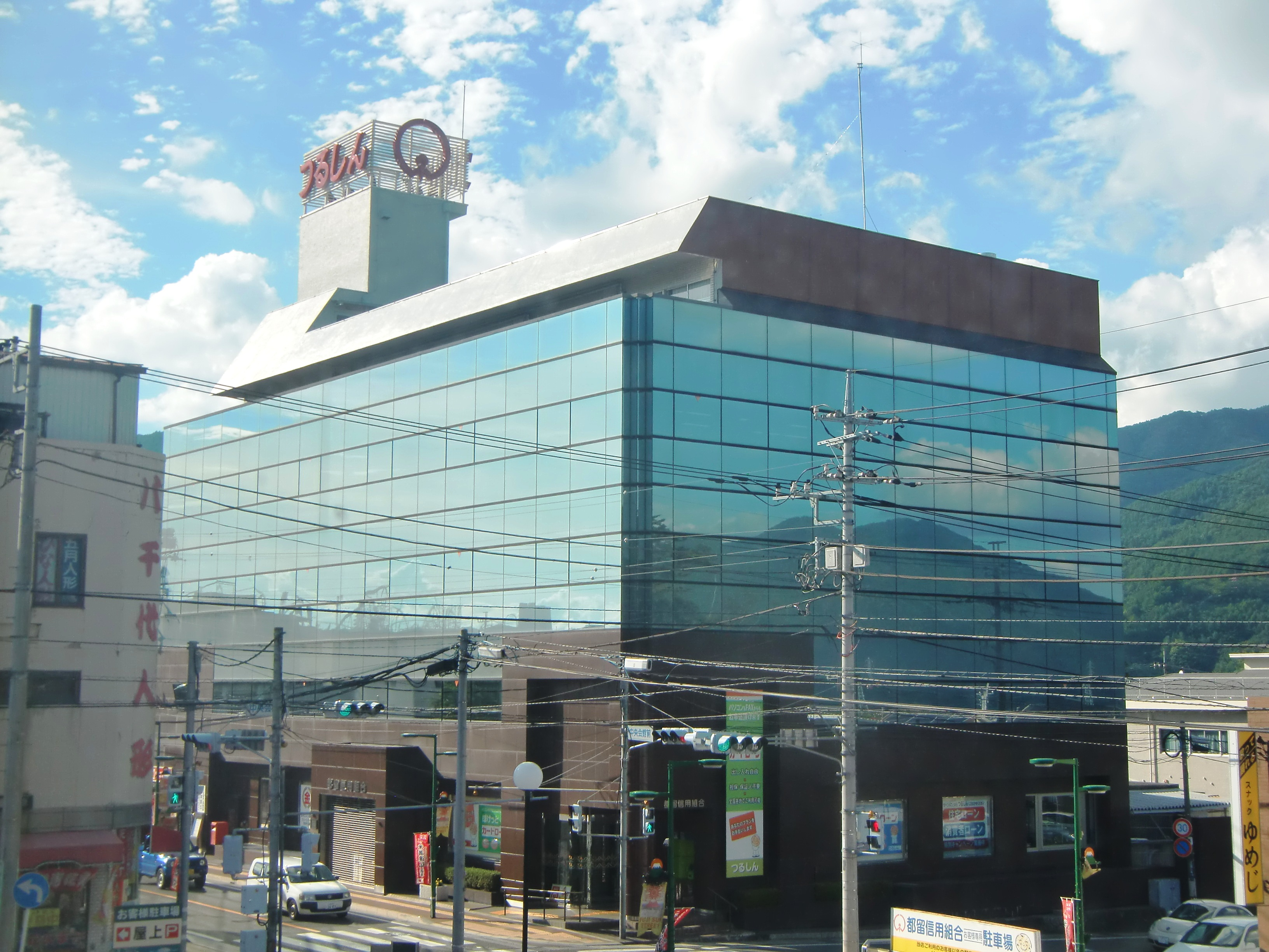 Tsuru Shinyoukumiai headquarters in Shimoyoshida, Fujiyoshida city, Yamanashi prefecture, Japan.